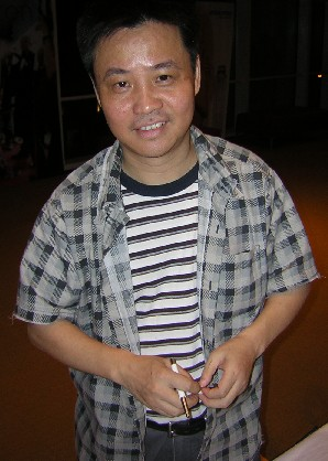 Yu Hua, August 29, 2005, Singapore Writers' Festival, Singapore